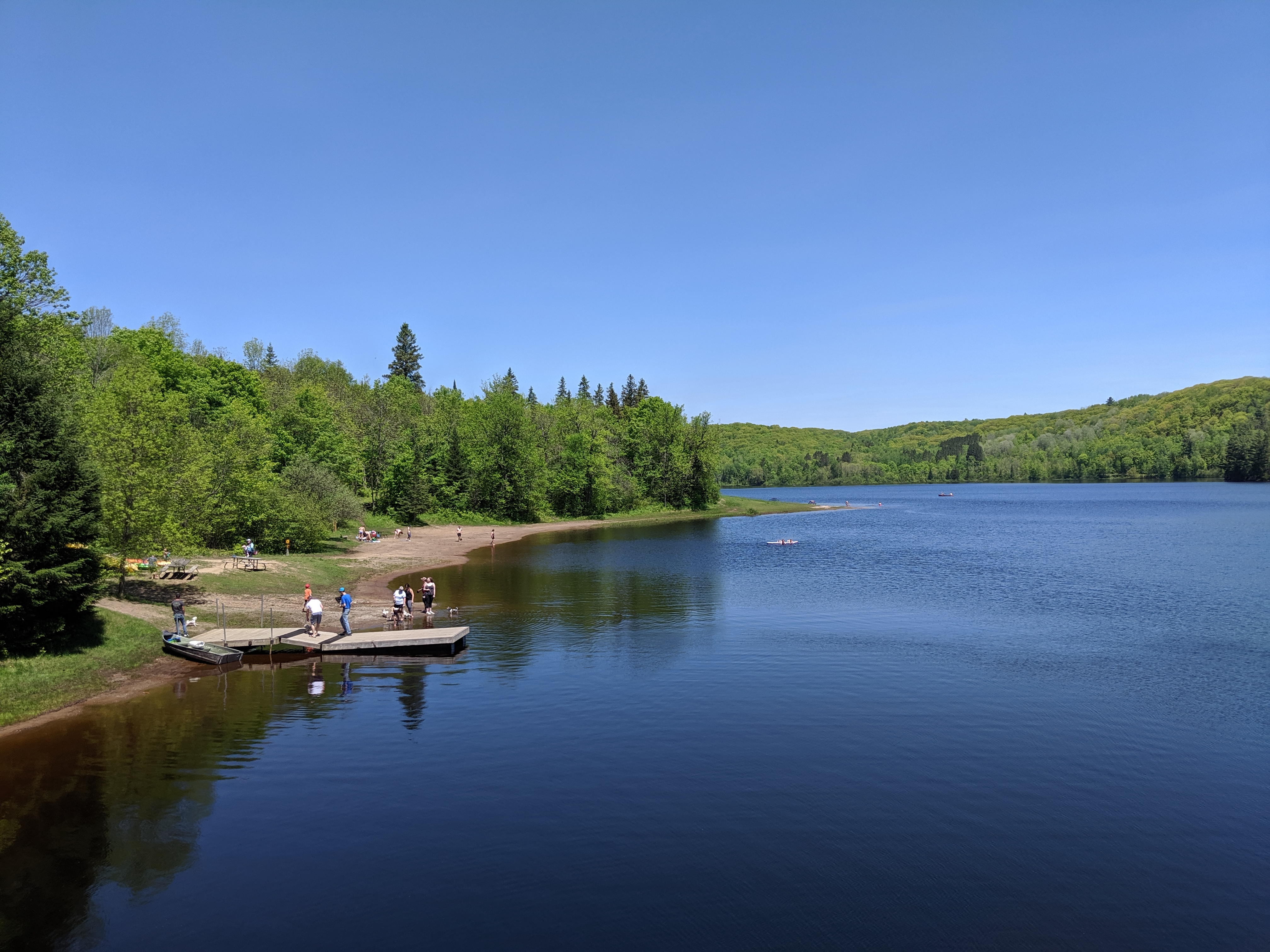 Arrowhead Lake at Arrowhead Provincial Park